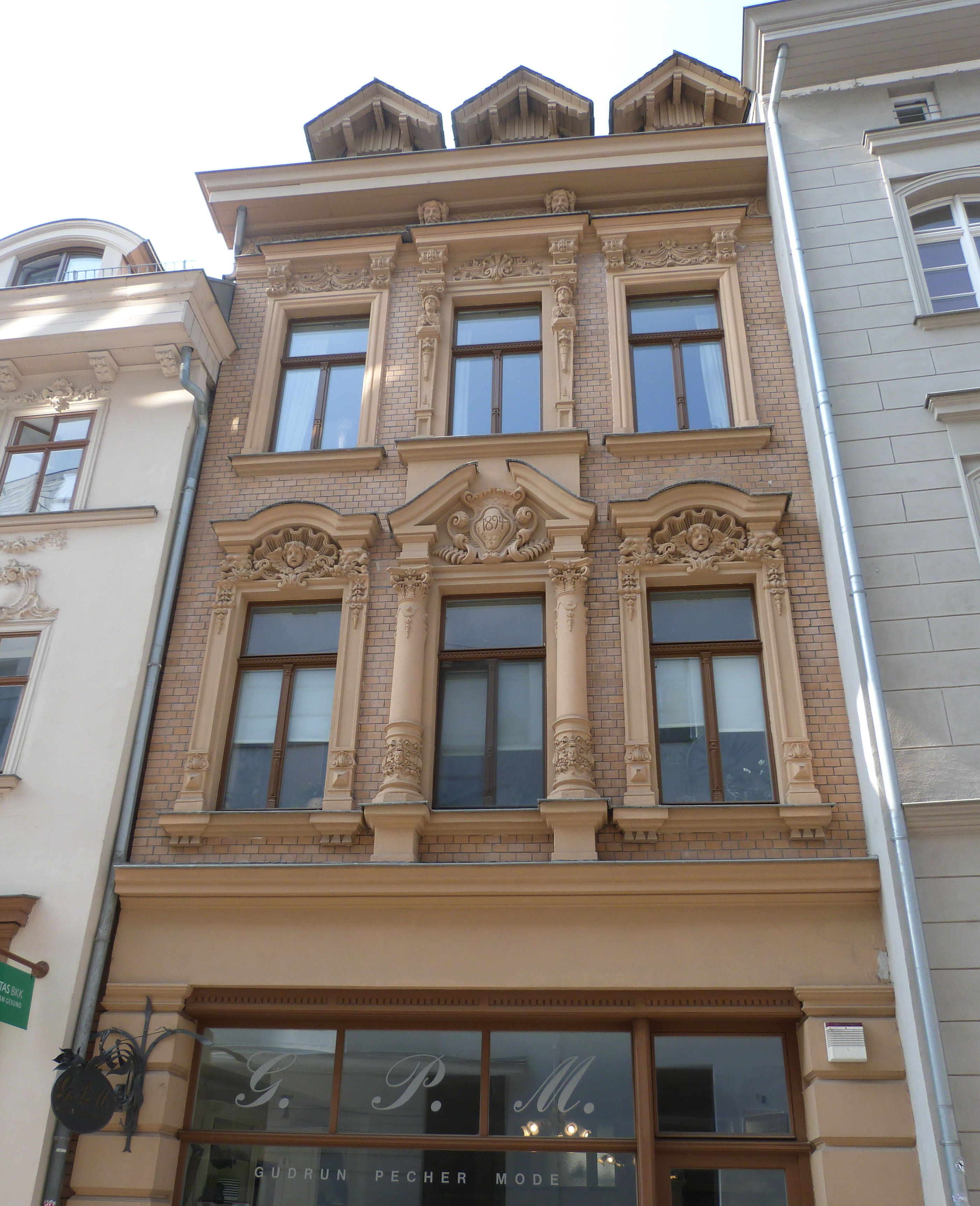 House No. 24, Grosse Märkerstrasse, Halle (Saale)